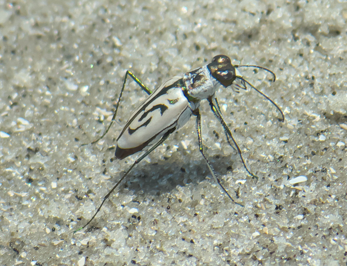 Habroscelimorpha dorsalis media, Species: Eastern Beach Tiger Beetle, ID Confidence: 98